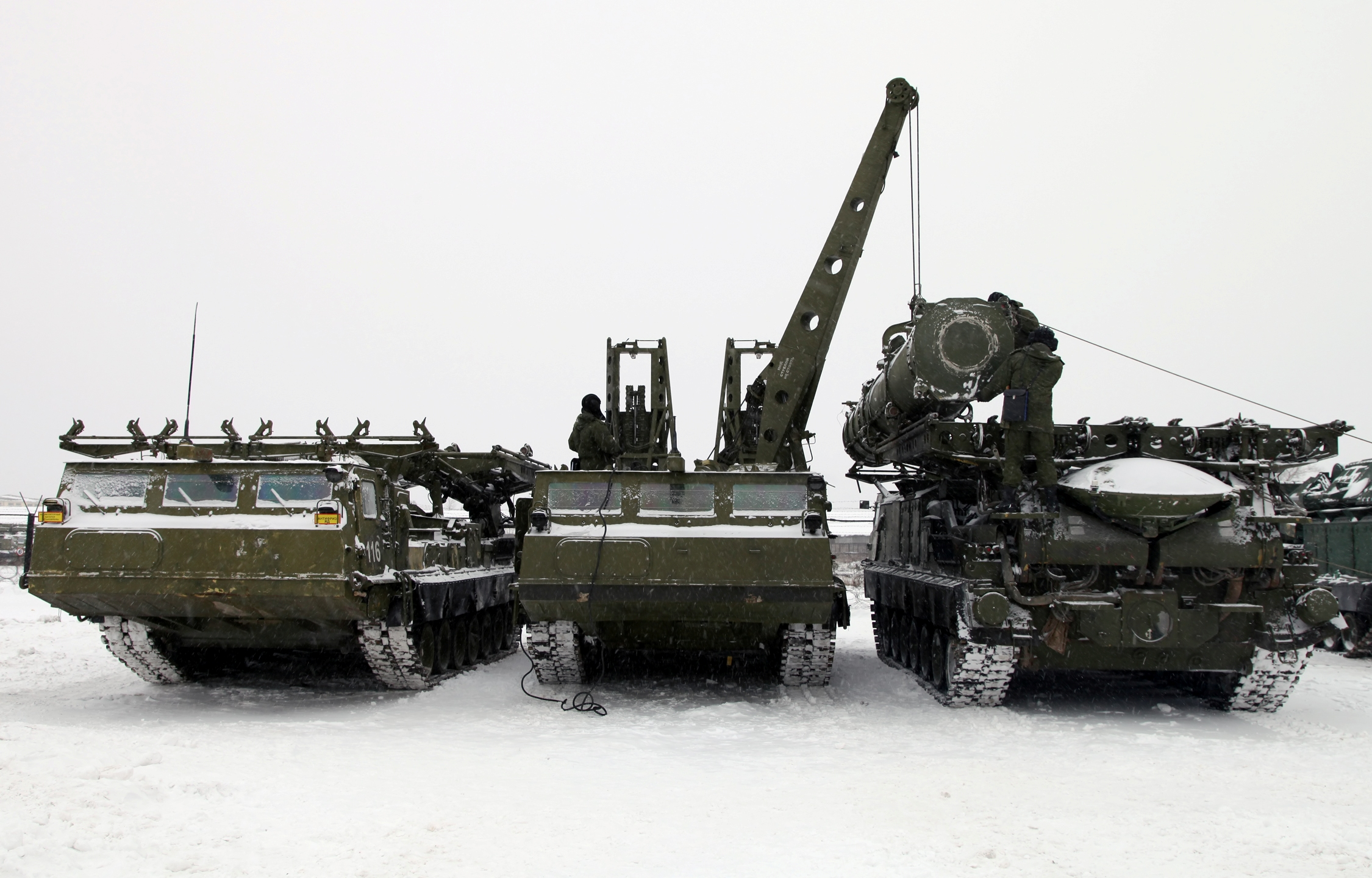 The 202nd Air Defence Brigade in the Western Military District in Russia. This air defence brigade is equipped with S-300V-SAMs. This brigade received these systems in 1989.